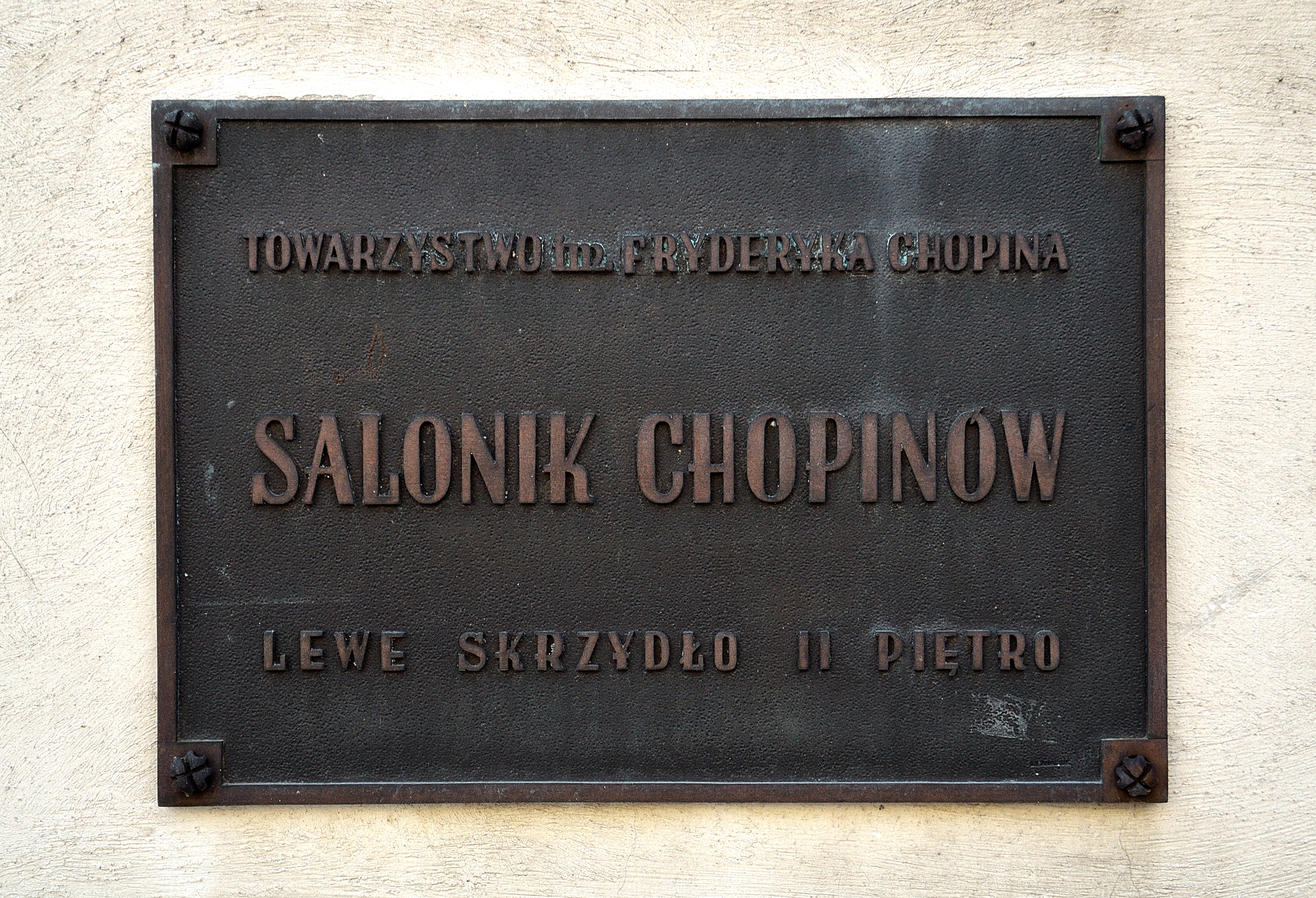 Plaque near the entrance to the left annexe of Czapski Palace (Faculty of Graphics Arts AFA) in Warsaw